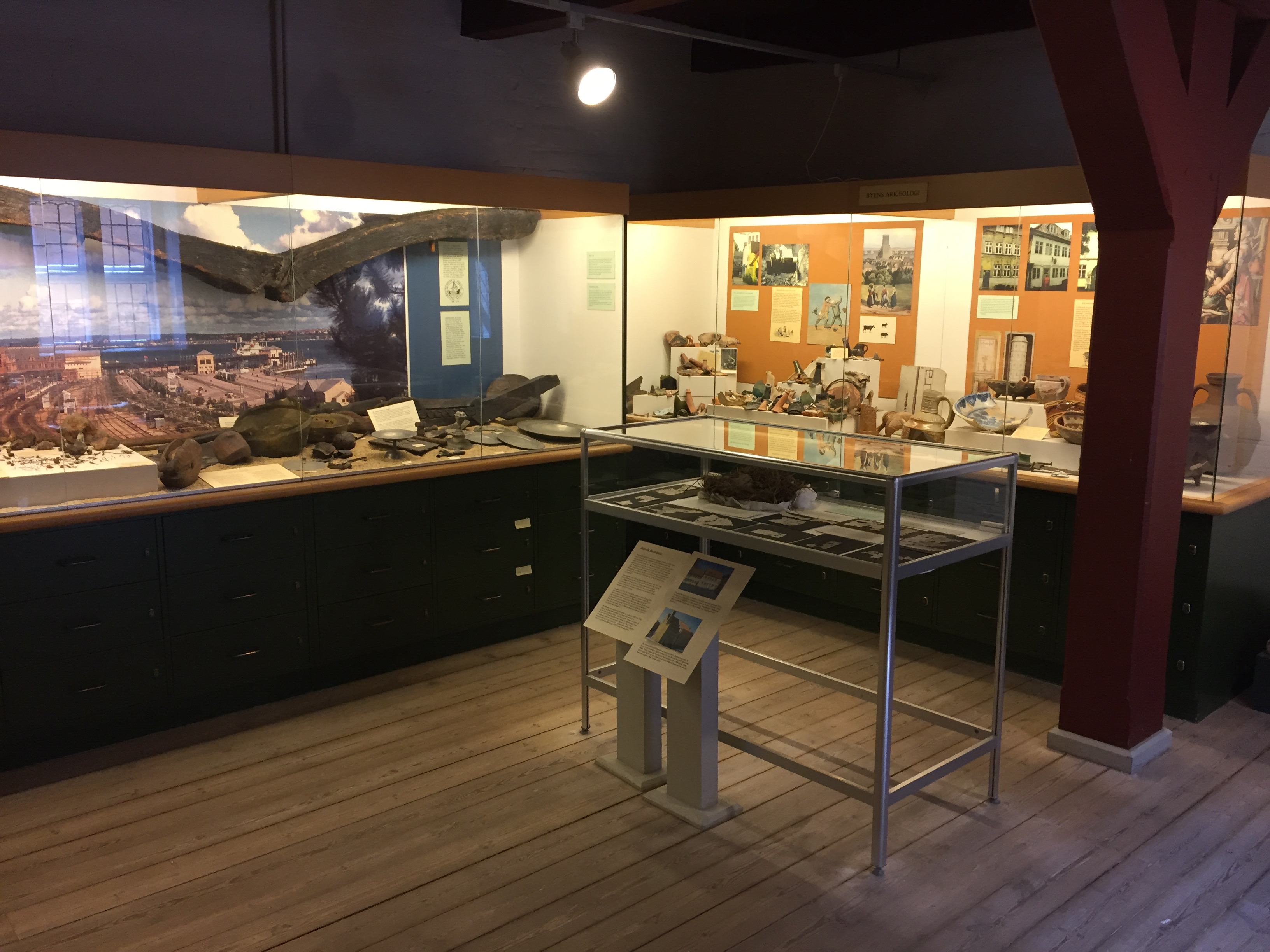 Helsingør City Museum in Helsingør, Denmark in 2018